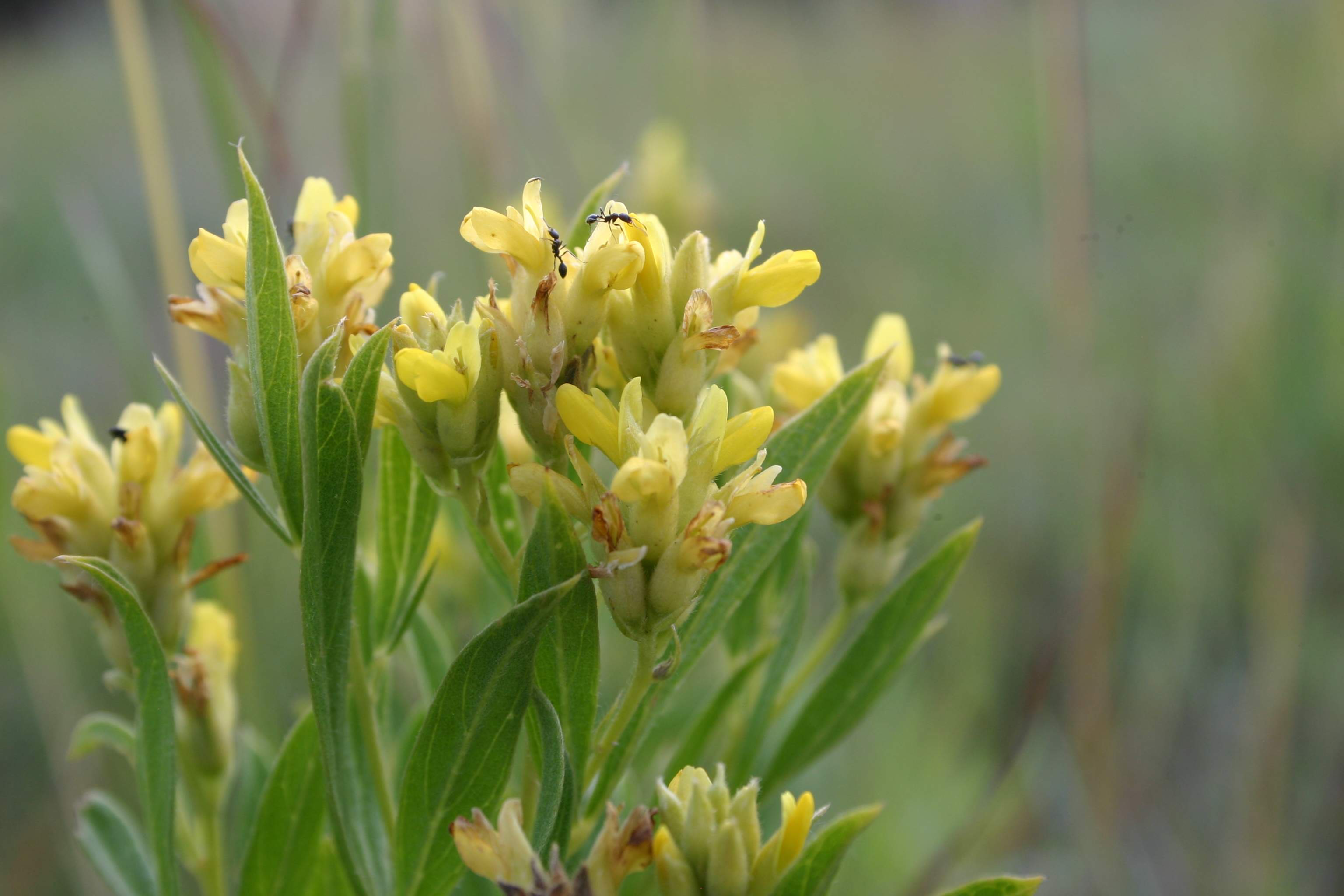 Pearsonia cajanifolia (Harv.) Polhill - growing in grassveld - Honeydew area, northwest of Johannesburg, South Africa